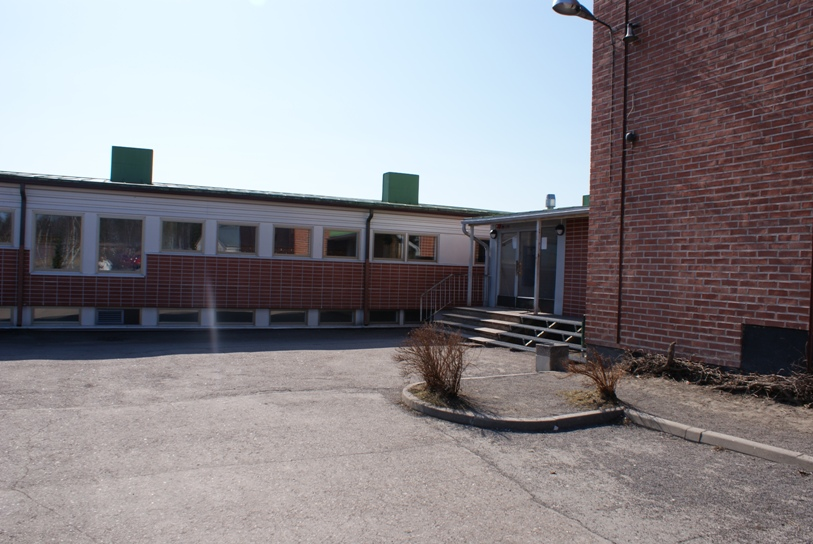 Porlammi middle school and upper secondary school in Porlammi, Lapinjärvi, main entrance